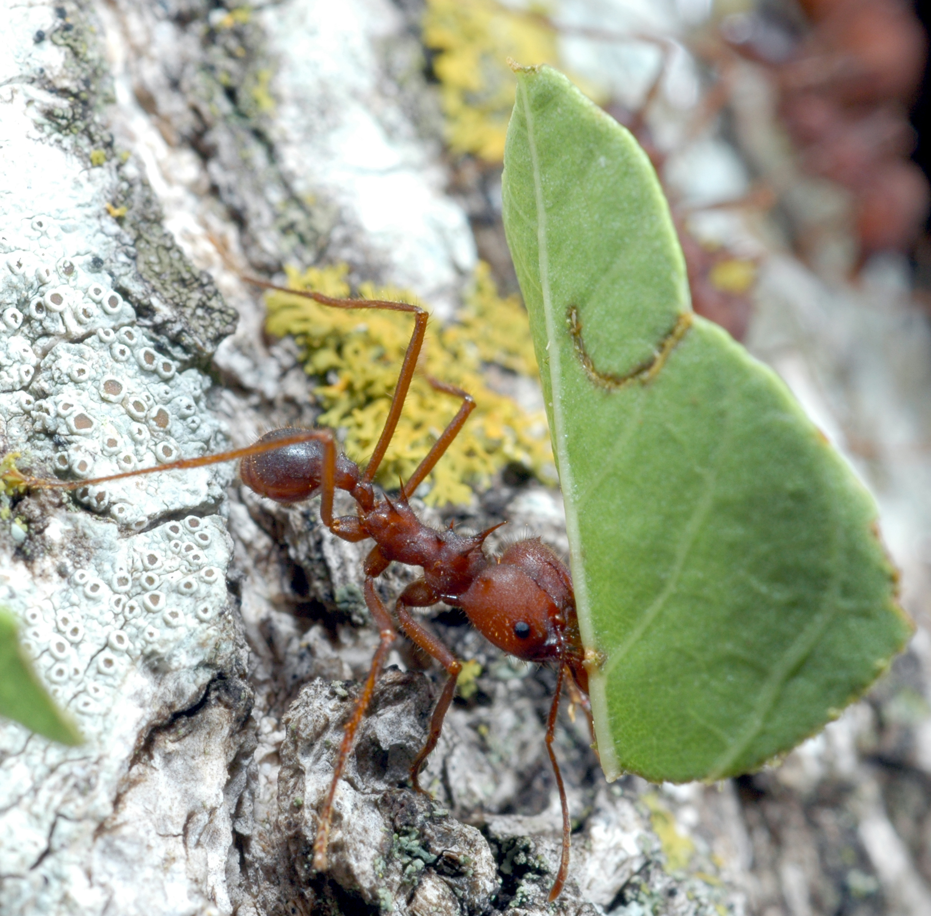 These guys were busy stripping the leaves from a tree at the first campsite in San Pedro Campground. They work at night and I tried to follow their trail to the mound but lost it in the thick brush after about 30 yards.